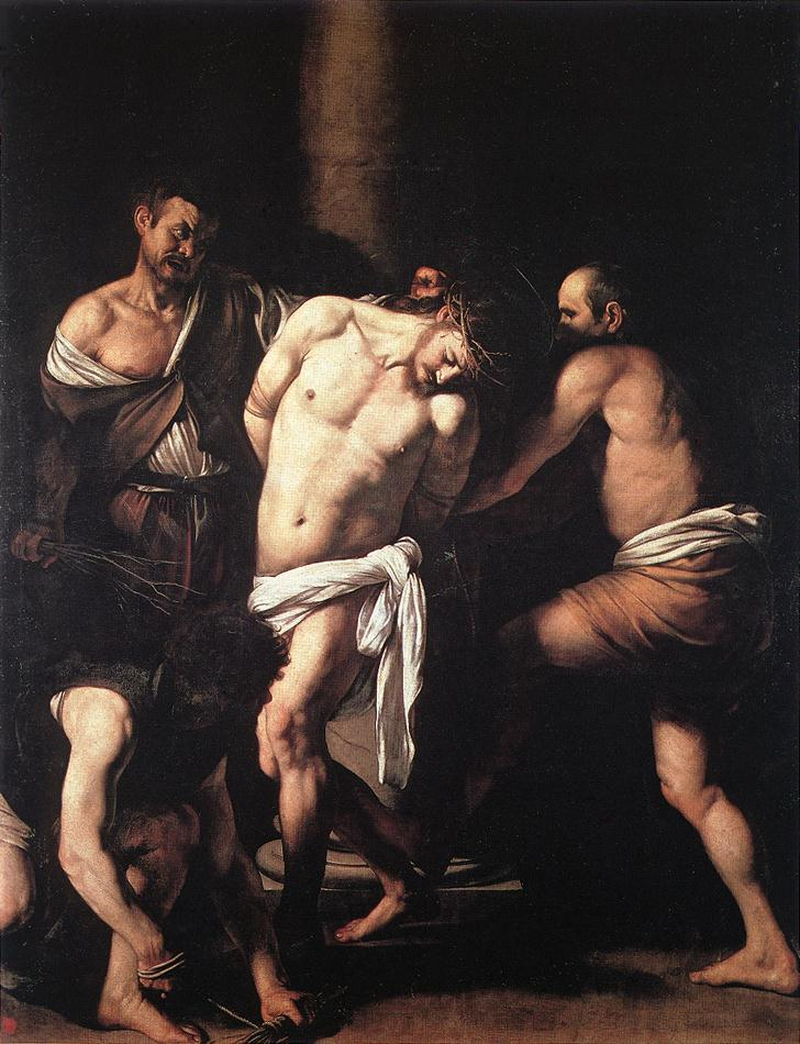 Flagellation of Christlabel QS:Len,"Flagellation of Christ"